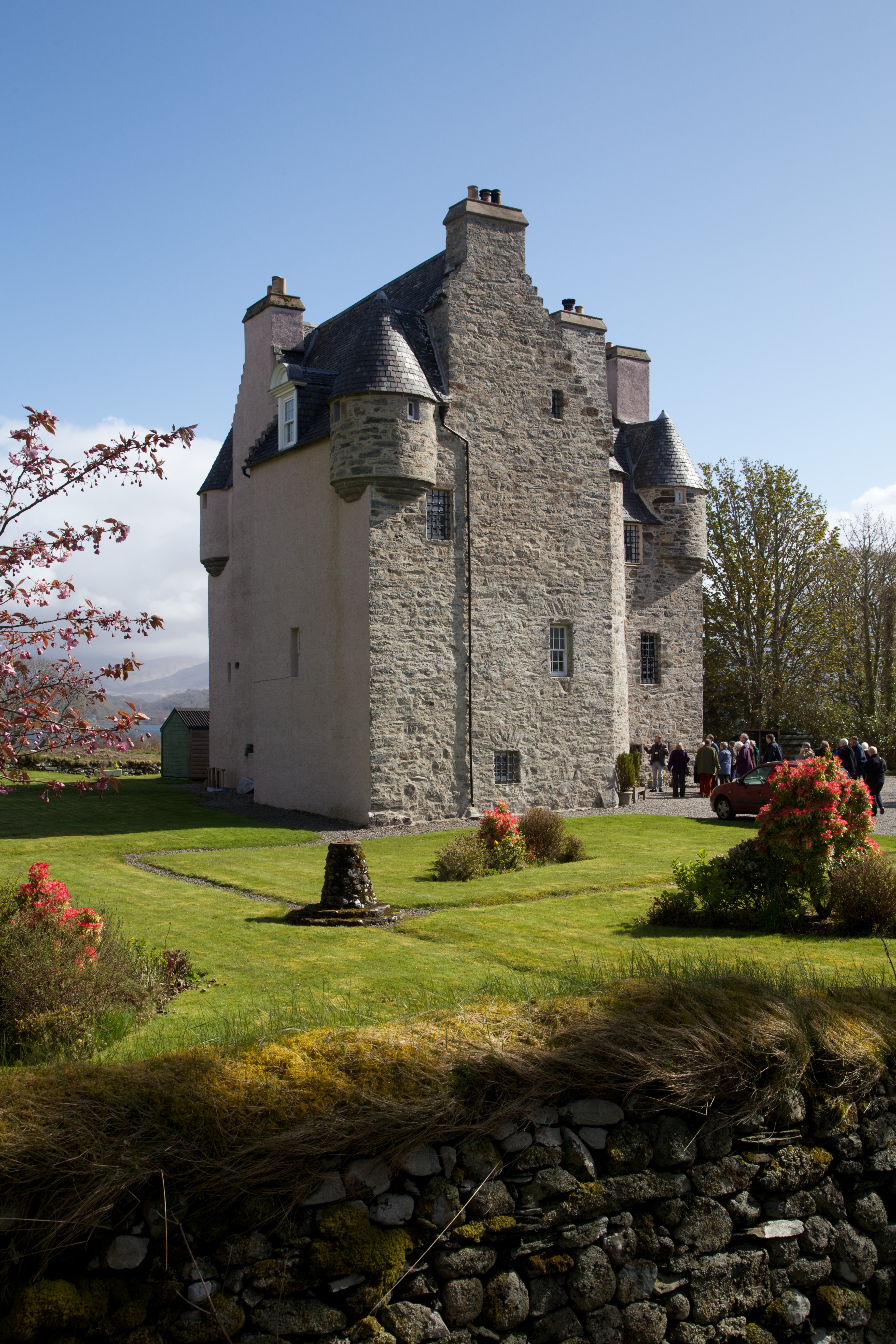 Barcaldine Castle Wikidata has entry Q3202 with data related to this item.